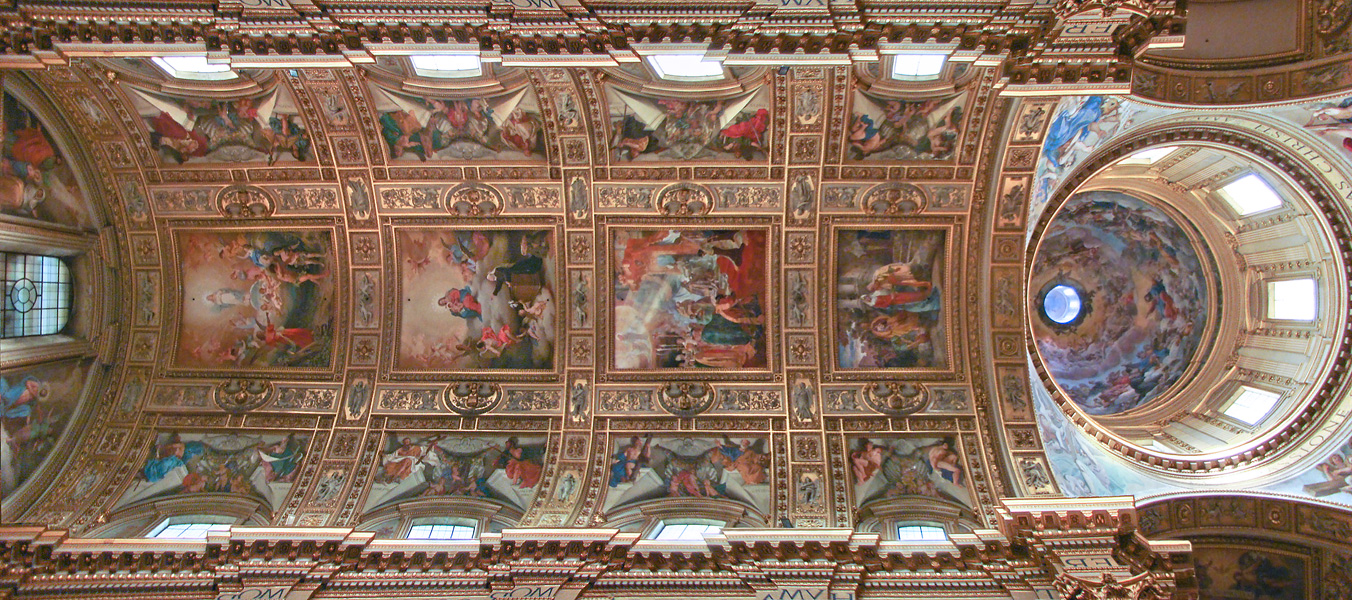 Basilica of Sant'Andrea della Valle, Rome, Lazio, Italy. Vault over the nave.